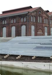 The picture shows the "Phoenixhalle" in Dortmund.